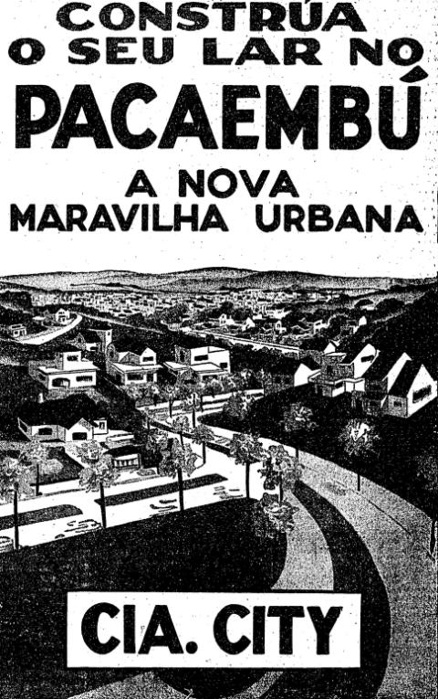 Advertising ublished in the Jornal Estado de São Paulo on 1937. Presentation of the rich neighborhood Pacaembu, in São Paulo city.